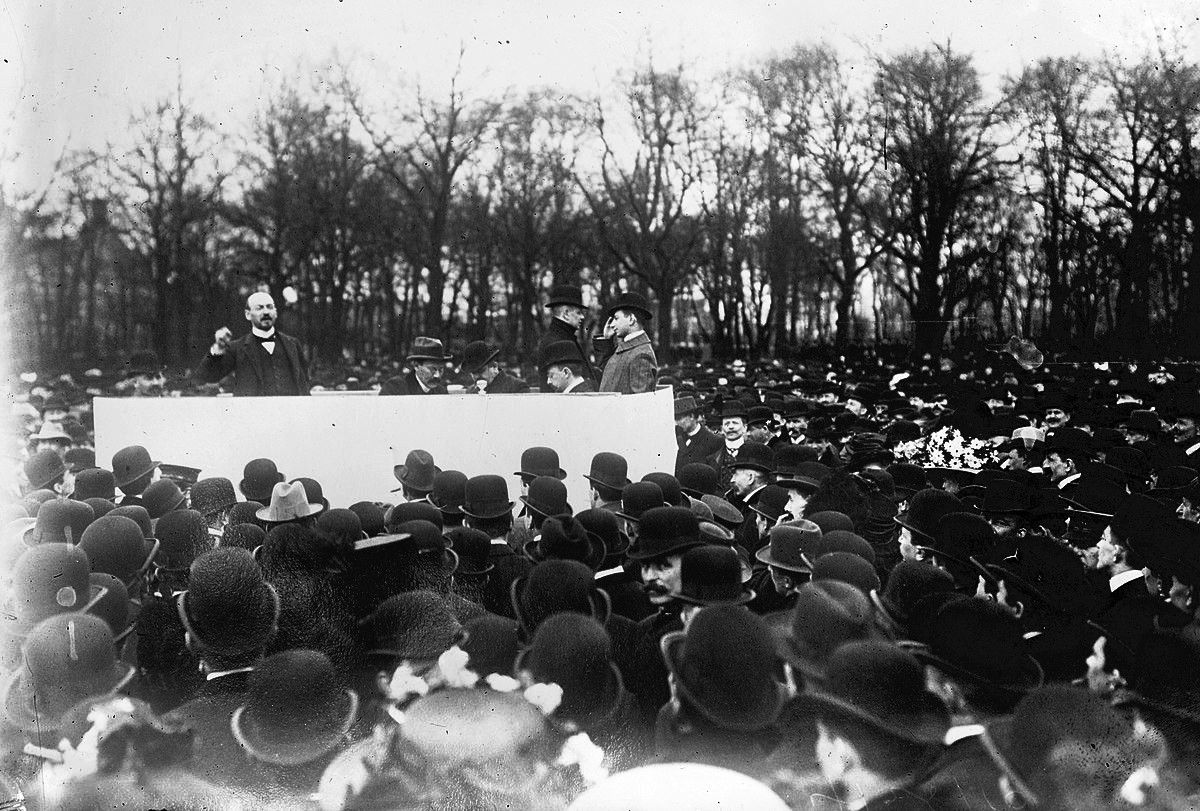 Title: Open air meeting, Berlin Abstract/medium: 1 negative : glass ; 5 x 7 in. or smaller.